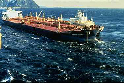 Photo of the Exxon Valdez in Prince William Sound, Alaska. Shortly after midnight on March 24, 1989, the 987-foot tank vessel Exxon Valdez struck Bligh Reef in Prince William Sound, rupturing its hull and spilling nearly 11 million gallons of Prudhoe Bay crude oil into a remote, scenic, and biologically productive body of water. What followed was the largest oil spill in coastal waters in U.S. history until the 2010 BP oil spill. The oil slick spread over 3,000 square miles and onto over 350 miles of beaches in Prince William Sound, one of the most pristine and magnificent natural areas in the country.